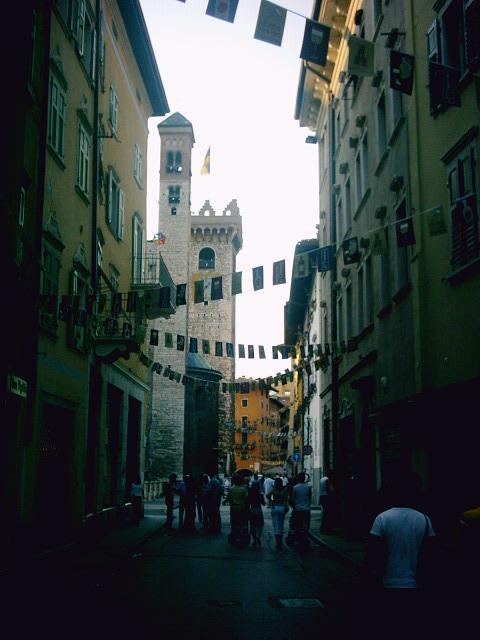 San Vigilio street and, in the distance, Giuseppe Garibaldi street in Trento, Trentino-South Tyrol, Italy